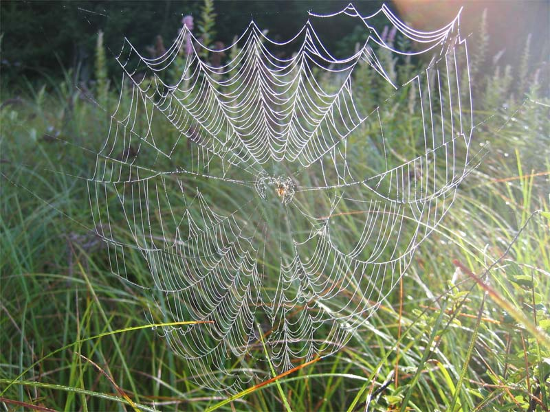 Description: Photograph of a spider web with morning dew enhancing its visibility.